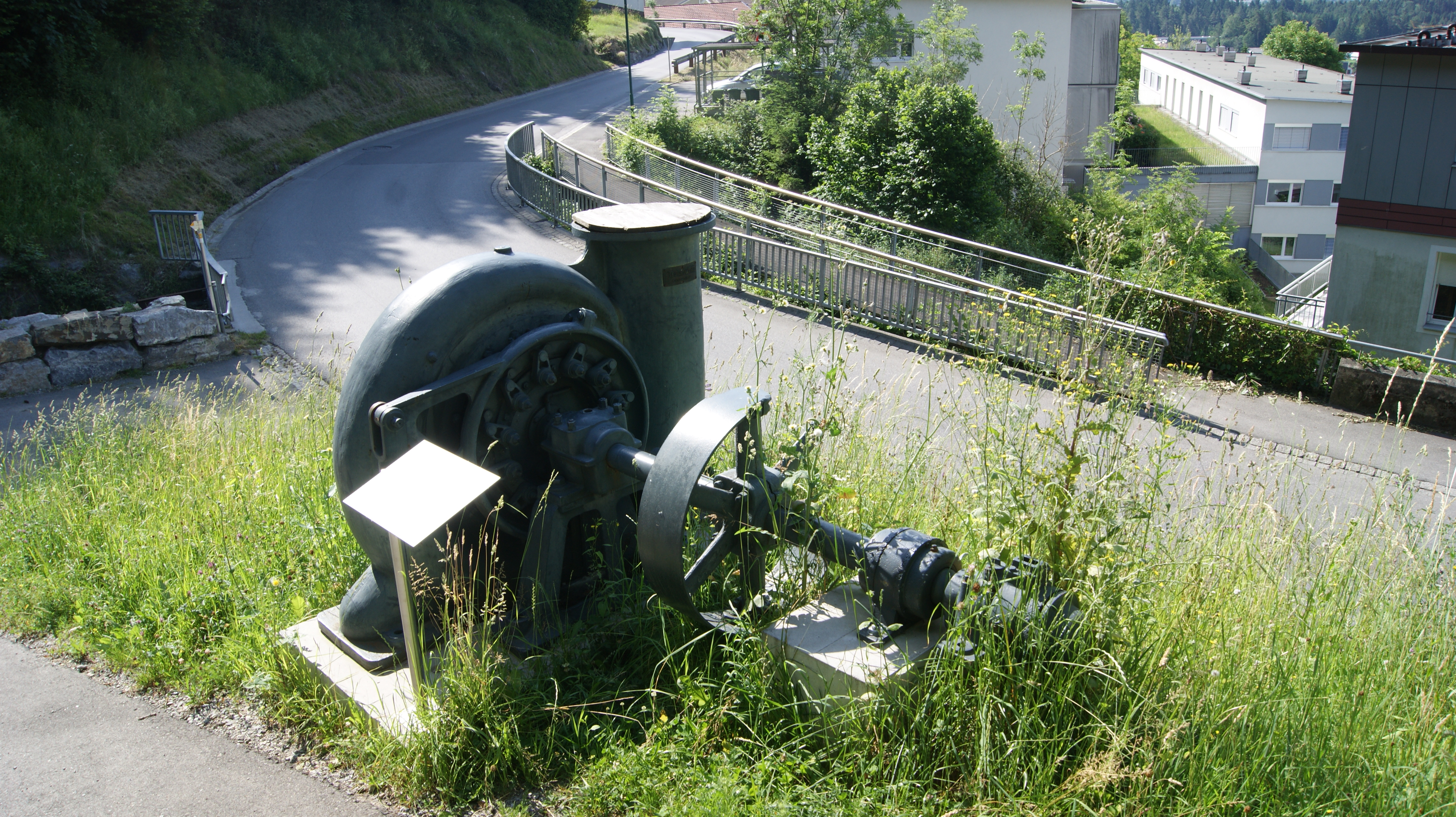 Power plant "Montiola" in the parish Thüringen in Vorarlberg, Austria. Old Francis turbine.